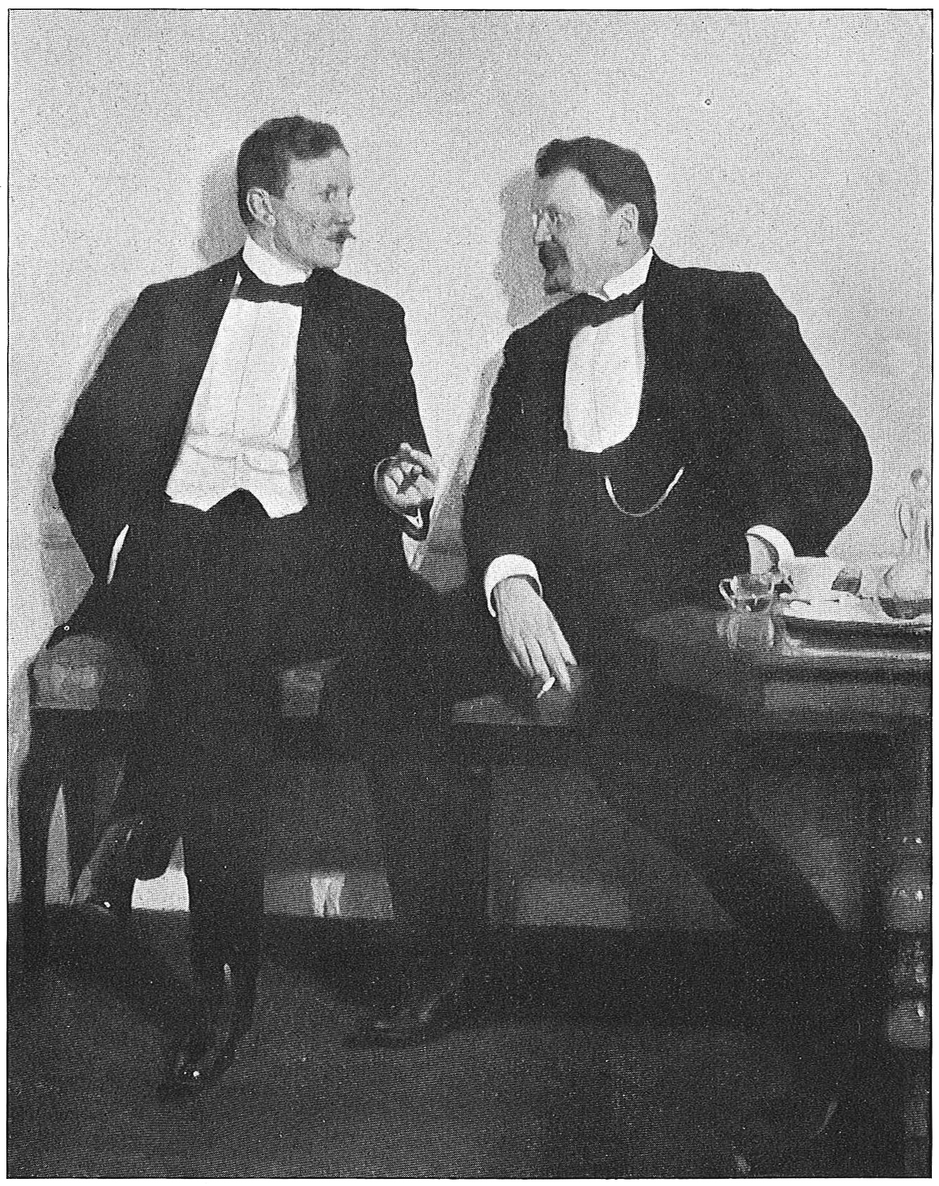 Double portrait of the Swedish artists Bernhard Österman and Erik Lindberg painted by Emil Österman.